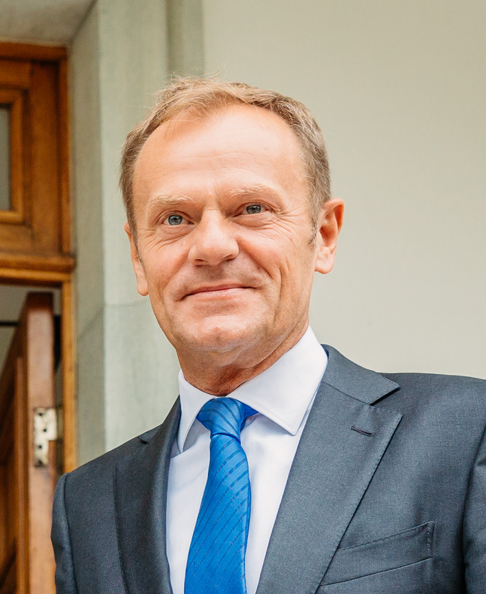 European Council President Donald Tusk meets with Estonian President Kersti Kaljulaid